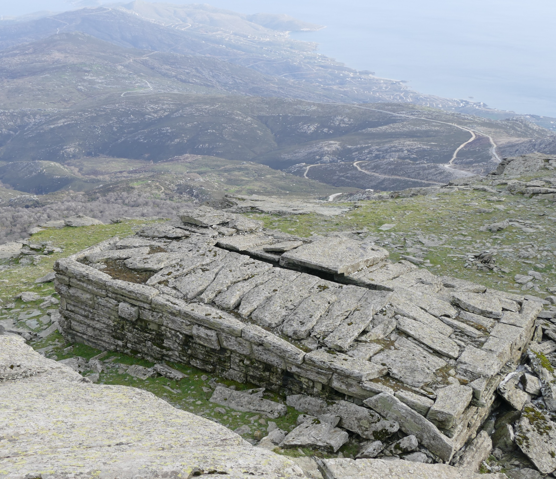 Ochi Dragon-house: Roof